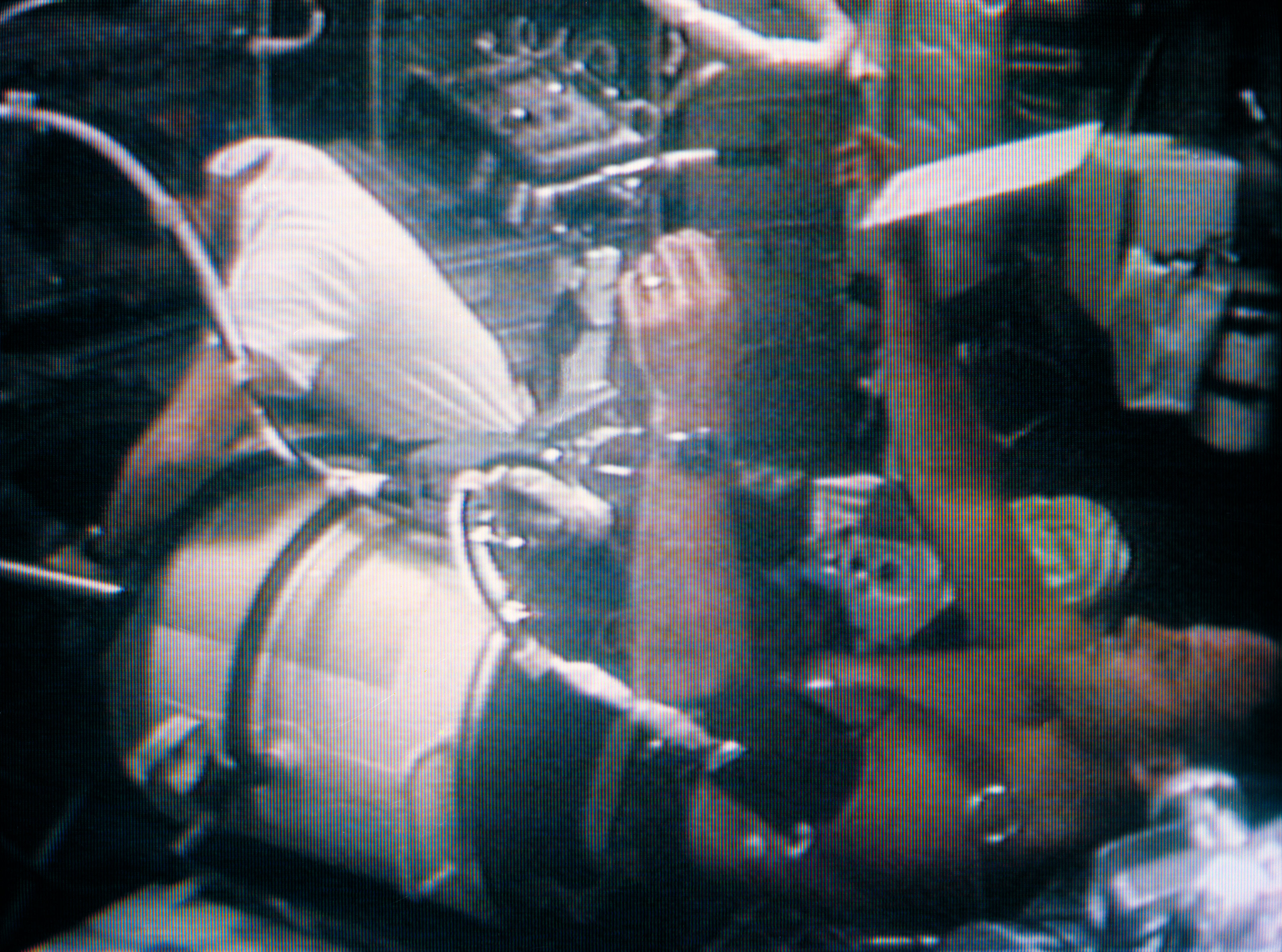 S73-34180 (7 Aug. 1973) --- A medium close-up view of astronaut Jack R. Lousma, Skylab 3 pilot, in the Lower Body Negative Pressure Device (LBNPD), as astronaut Alan L. Bean, commander, works around the leg band area. This portion of the LBNPD MO-92 experiment was televised on Aug. 7, 1973. The LBNPD experiment is to provide information concerning the time course of cardiovascular adaptation during flight, and to provide in-flight data for predicting the degree of orthostatic intolerence and impairment of physical capacity to be expected upon returning to Earth environment. The bicycle ergometer is in the background, partially visible behind Bean. Photo credit: NASA